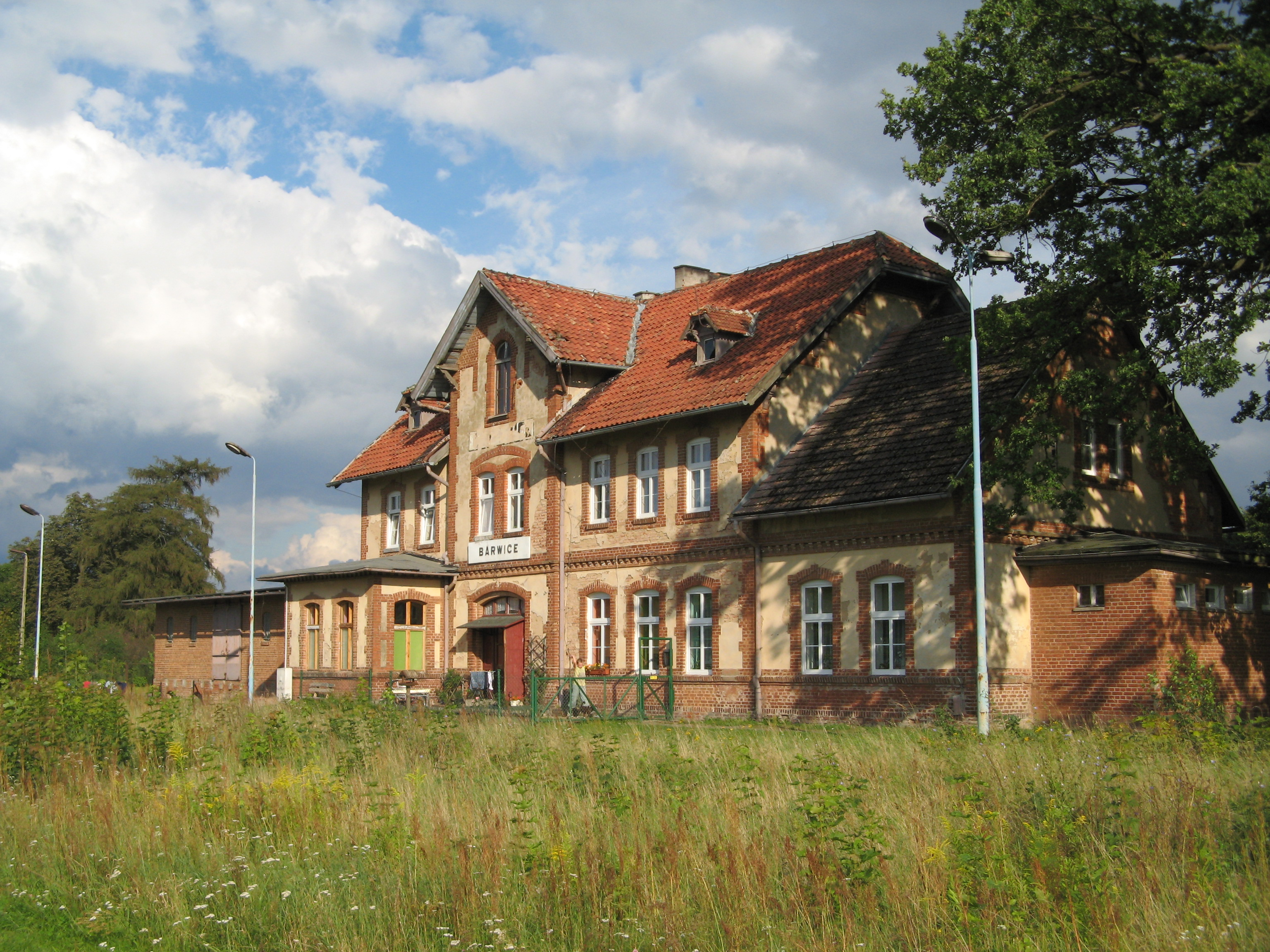 Railwaystation of Barwice